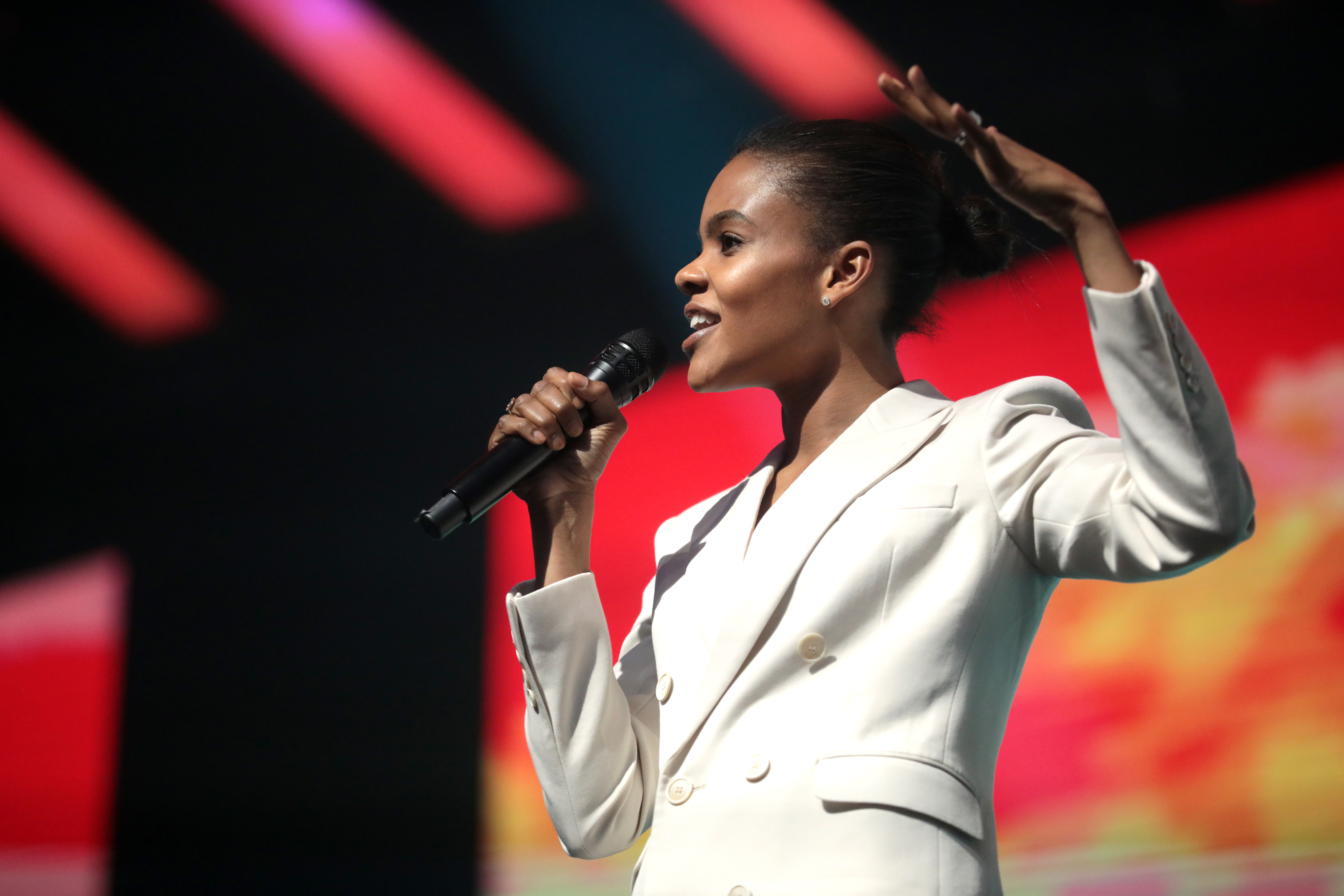 Candace Owens speaking with attendees at the 2019 Student Action Summit hosted by Turning Point USA at the Palm Beach County Convention Center in West Palm Beach, Florida.